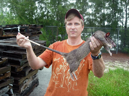 A partnership between the FWS and Wildlife Services is helping to eradicate the Gambian Pouch Rat (Cricetomys gambianus) from the Florida Keys.